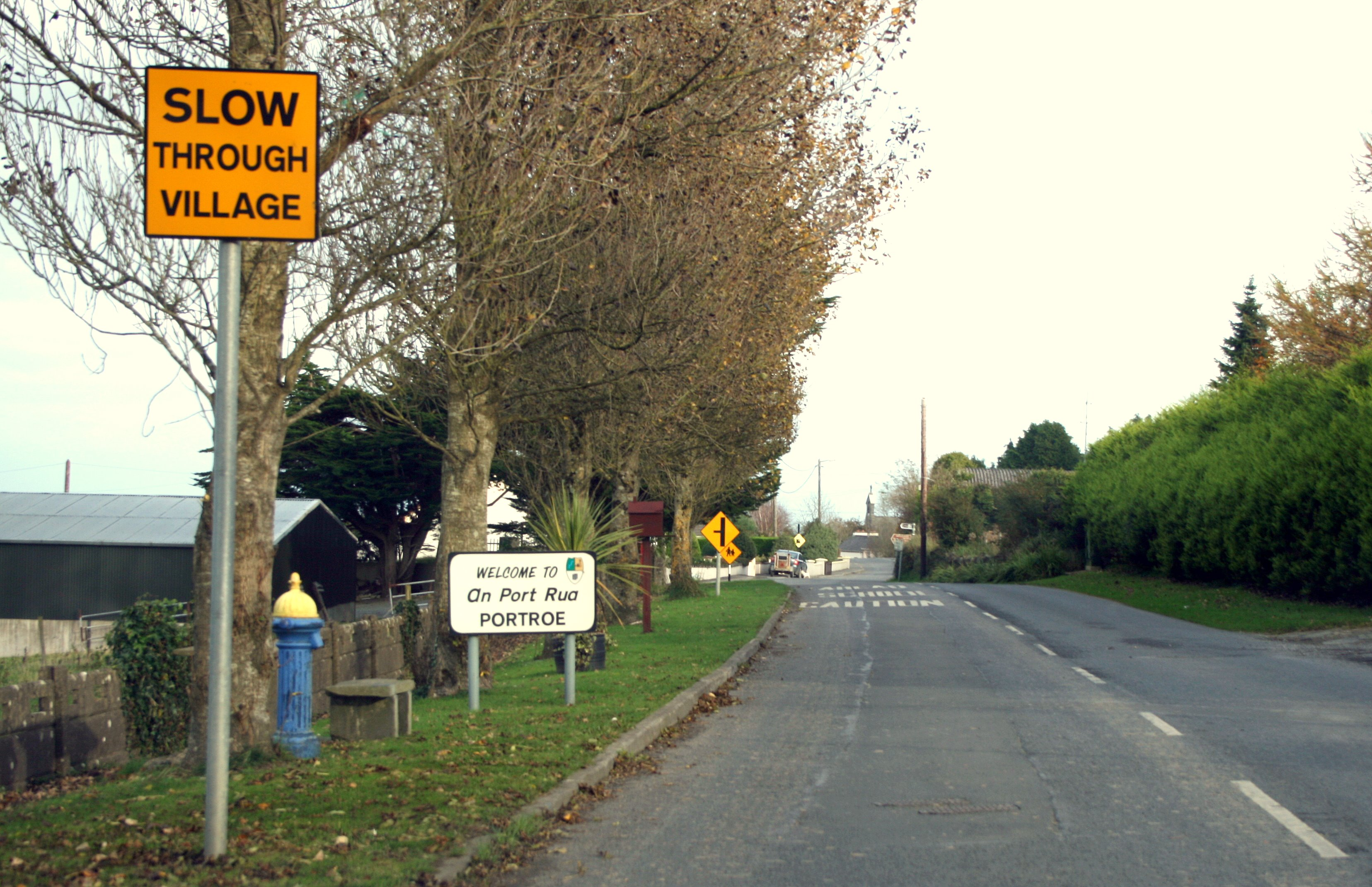 Portroe, County Tipperary, Ireland